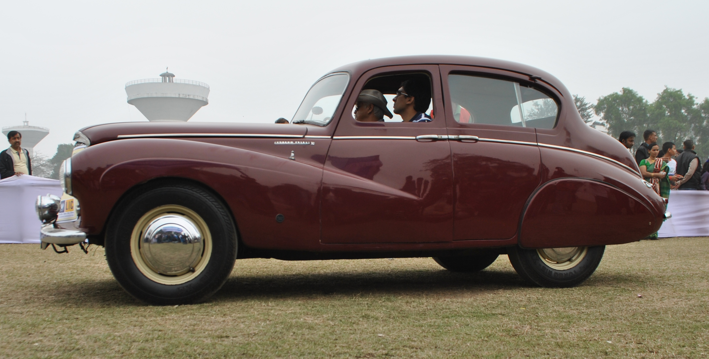 Side view of Sunbeam Talbot (1950)